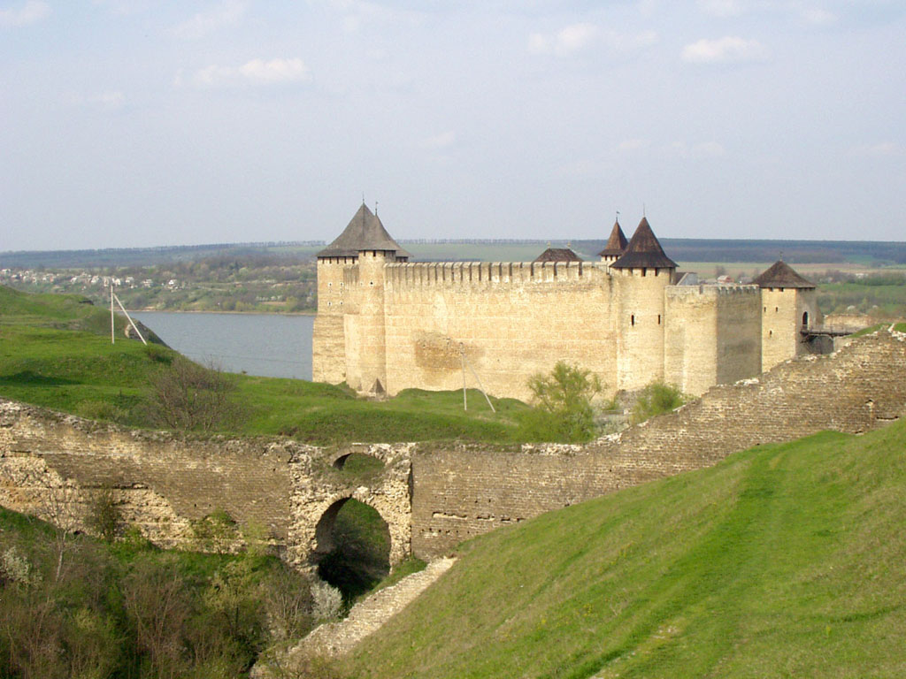 Fortress of Khotin, Ukraine.